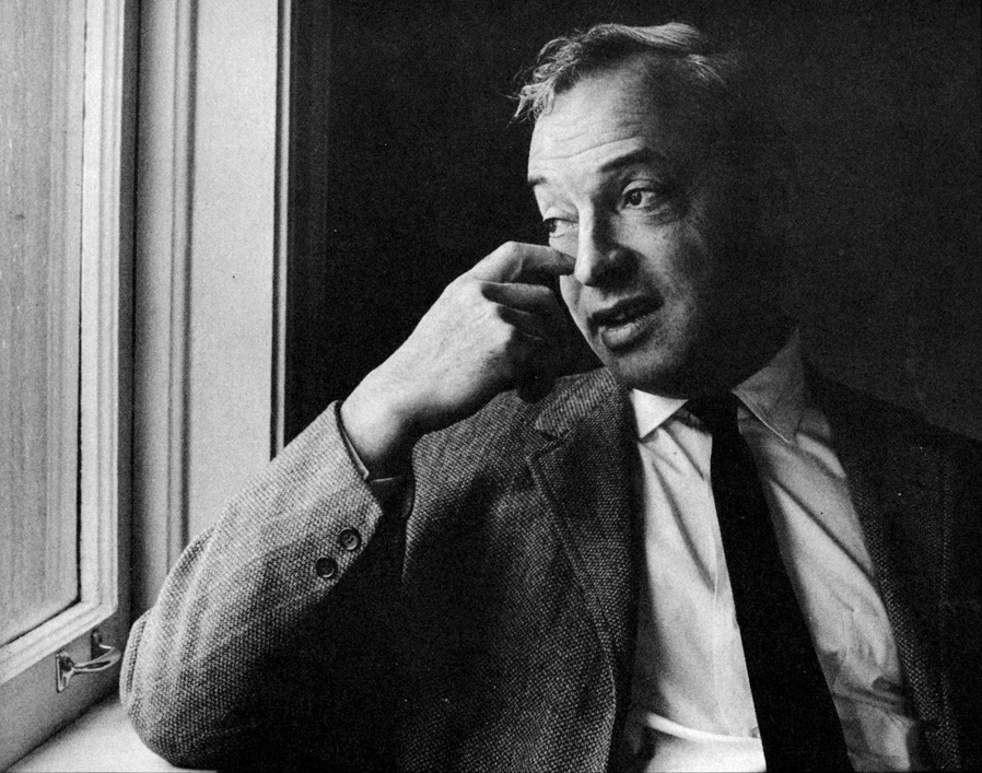 Photo portrait of Canadian-American author Saul Bellow used for the first-edition back cover of Herzog (1964).